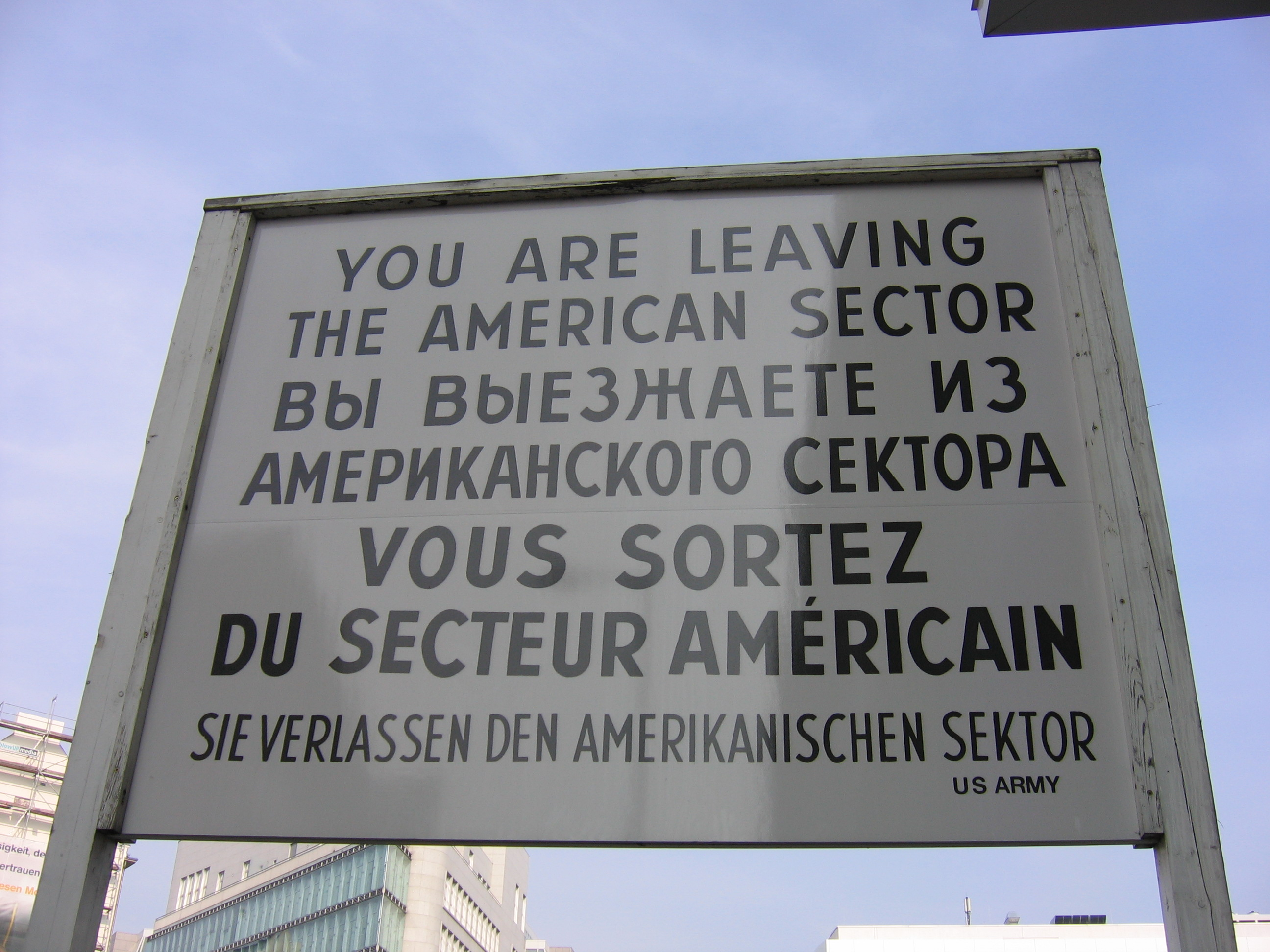 Memorial Site: Checkpoint Charlie (rebuild) in Berlin, 2005. Sign:leaving american sector